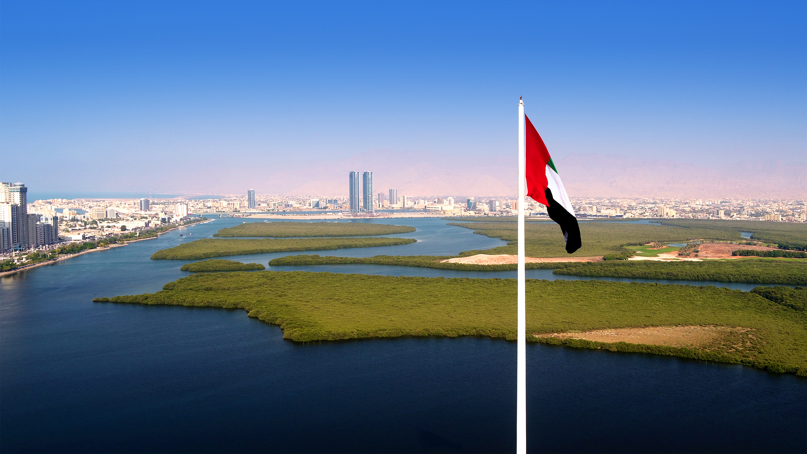 Aerial view of RAK City from Al Qawasim Corniche flagpole.